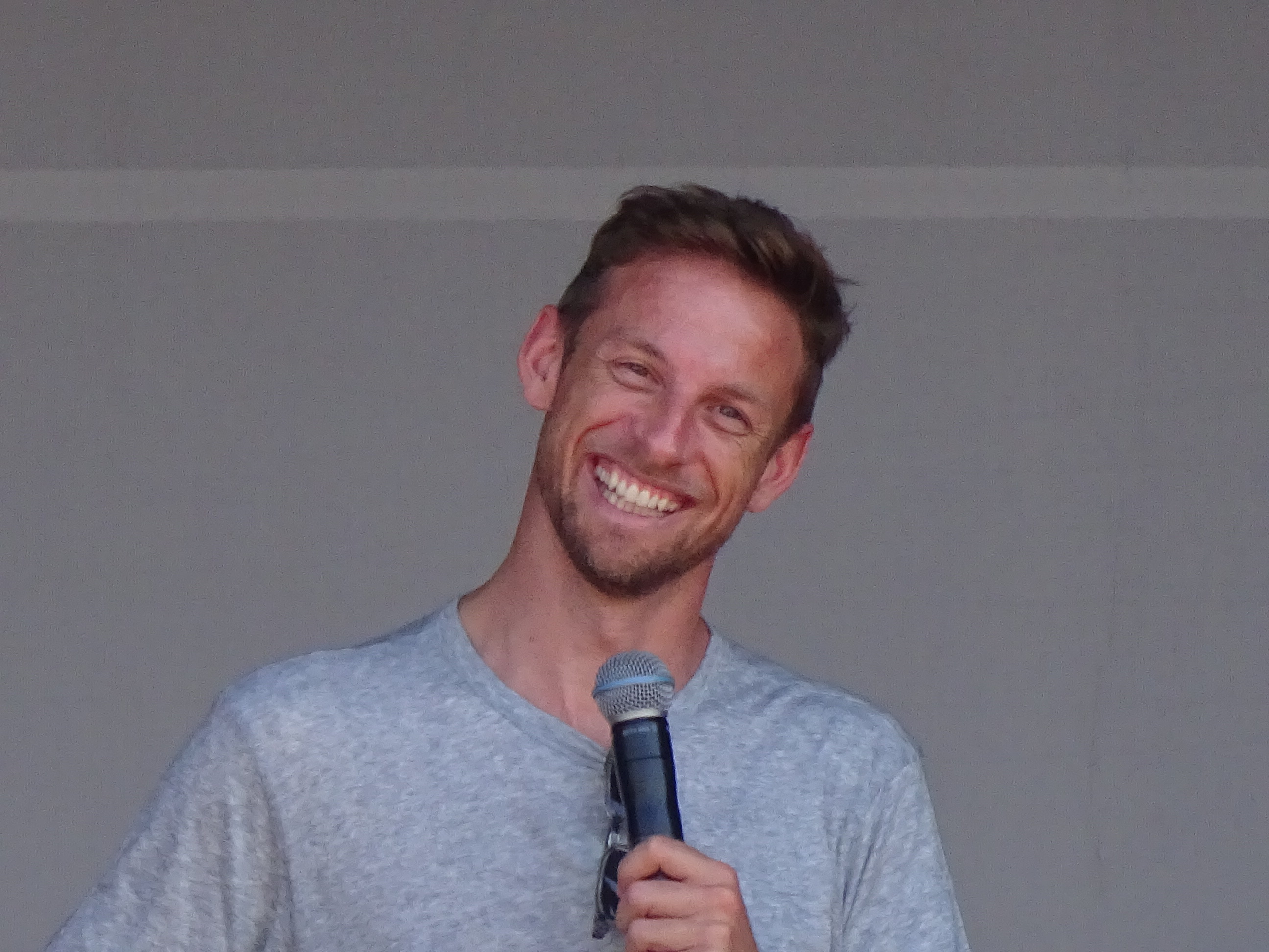 Jenson Button giving interview during the 2018 British Grand Prix.